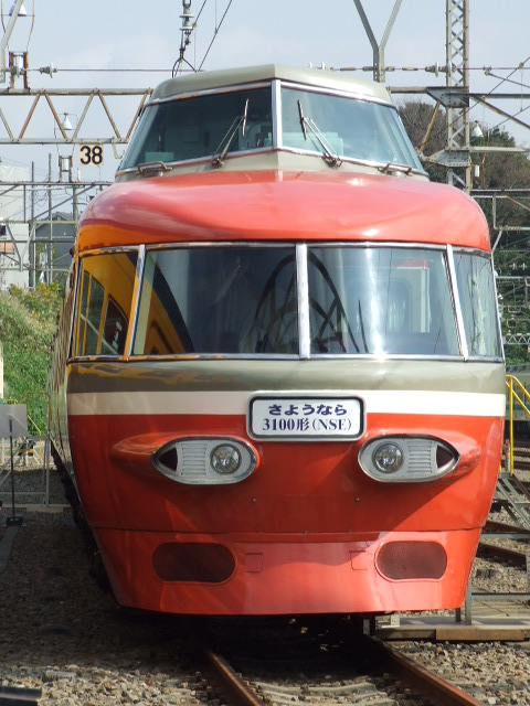 Model 3100 - Odakyu RomanceCar NSE-, Odakyu Electric Railway, Japan.